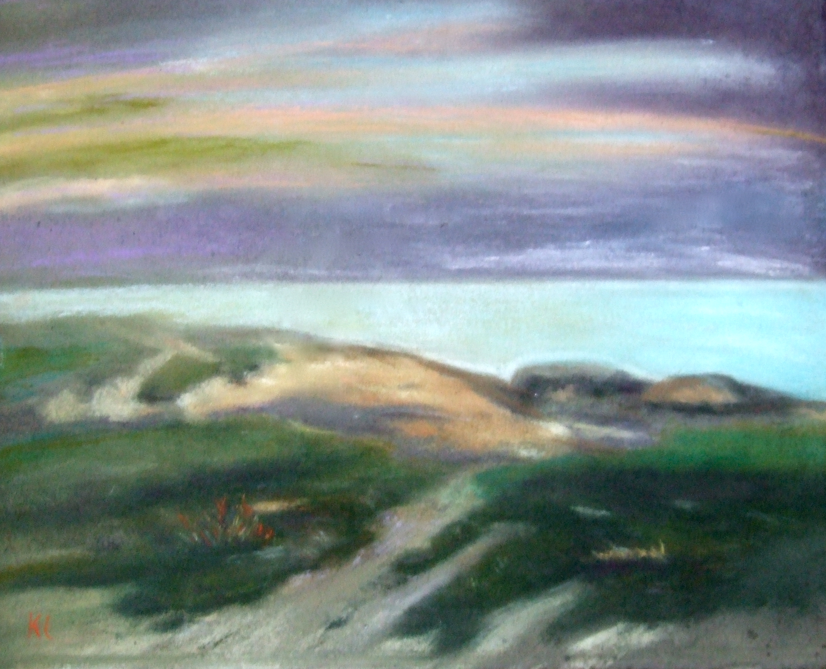 Dünenheide vor Vitte (Hiddensee)